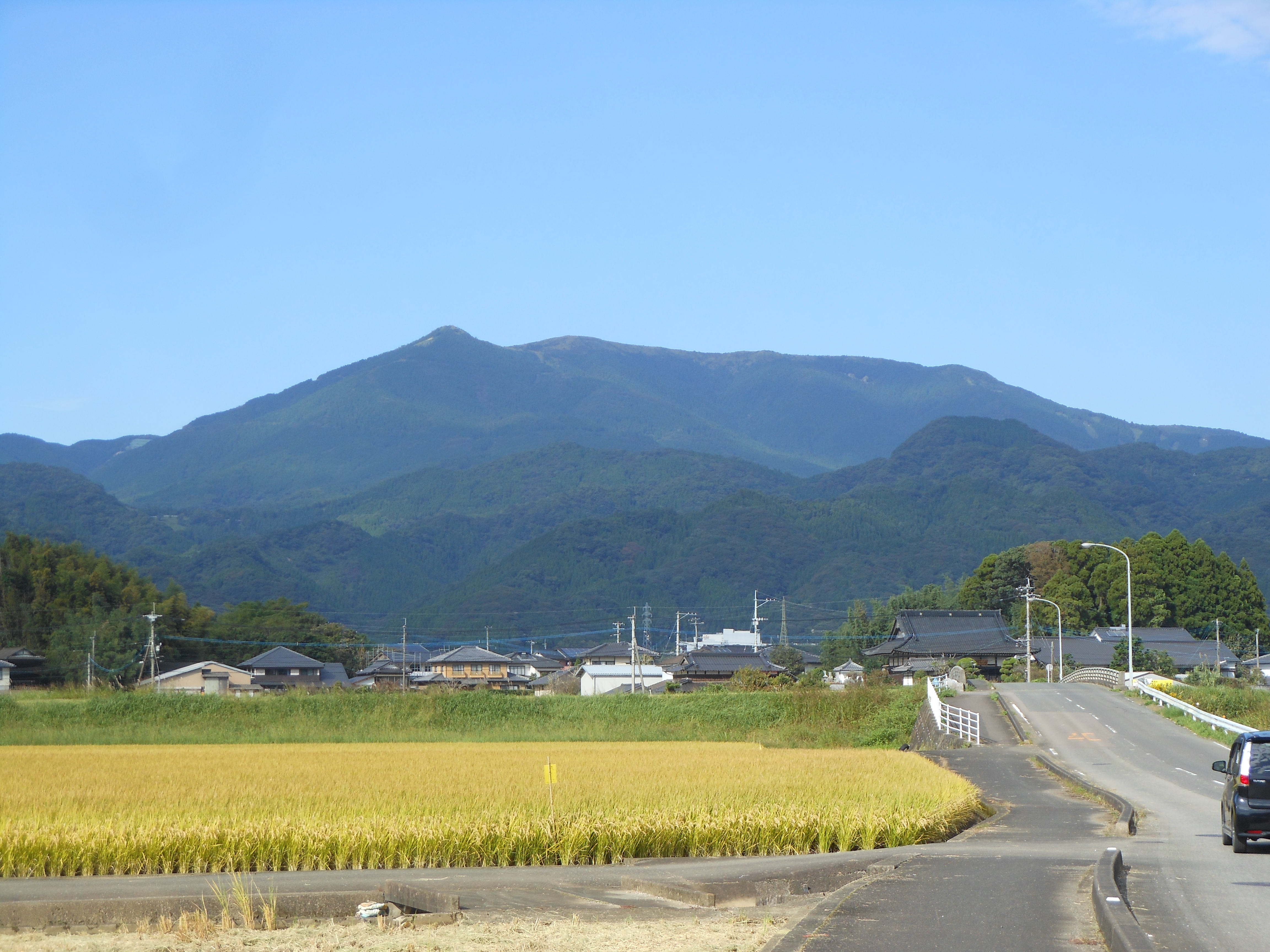 Mount Tenzan in Saga prefecture, from Minamitaku, Taku city.